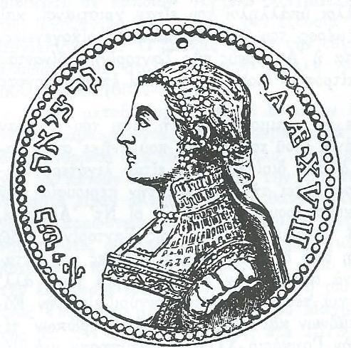 Grazia Mendes, aunt & mother-in-law of Joseph Nasi duke in Naxos of Aegean Archipelago